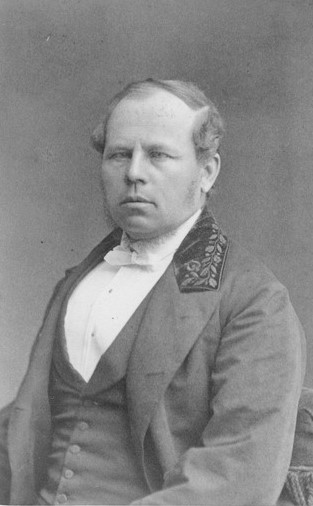 Swedish philologist Anders Frigell (1820-1897), cropped b/w photo